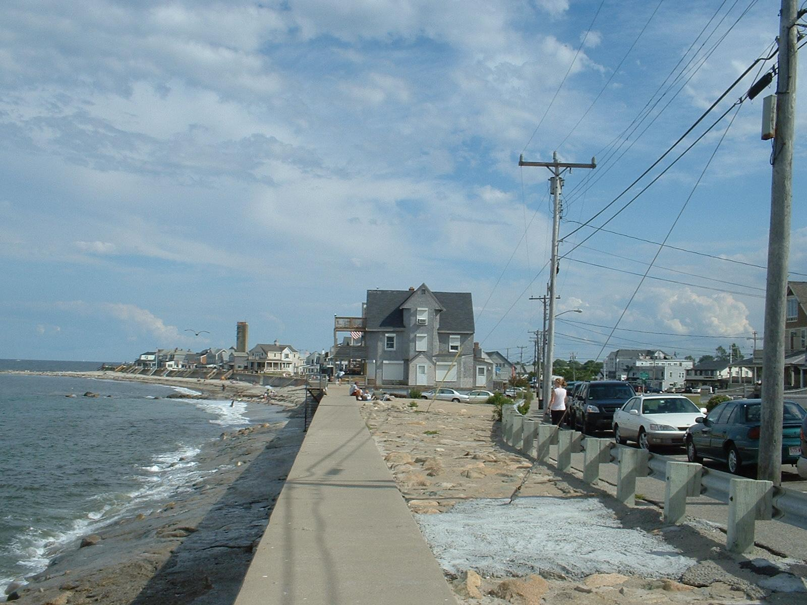 Looking south along Brant Rock Beach, Marshfield, Massachusetts.